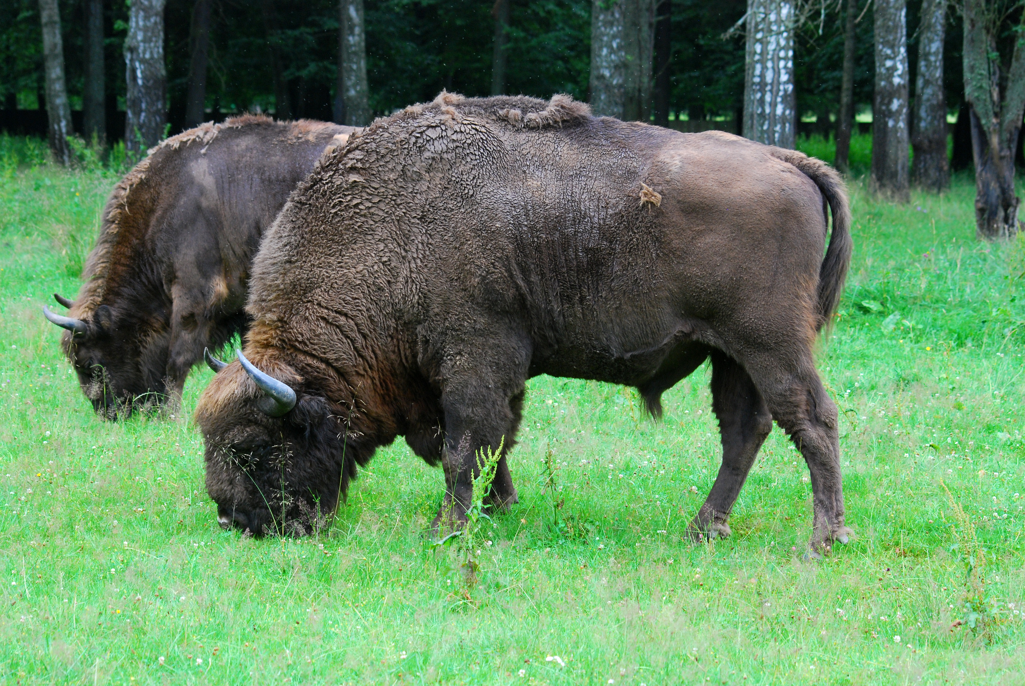 This photo from Podlaskie Voievodeship was taken during Polish Wikiexpedition 2009 set up by Wikimedia Polska Association. The making of this document was supported by Wikimedia Polska. Bison bonasus